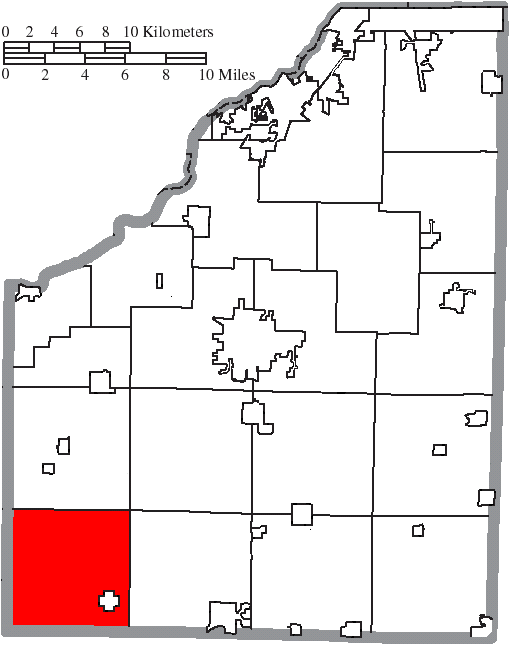 Map of the municipal and township boundaries of Wood County, Ohio, United States, as of the 2000 census, with the location of Jackson Township highlighted. Township borders are shown only in unincorporated areas in order to differentiate incorporated and unincorporated areas more clearly.